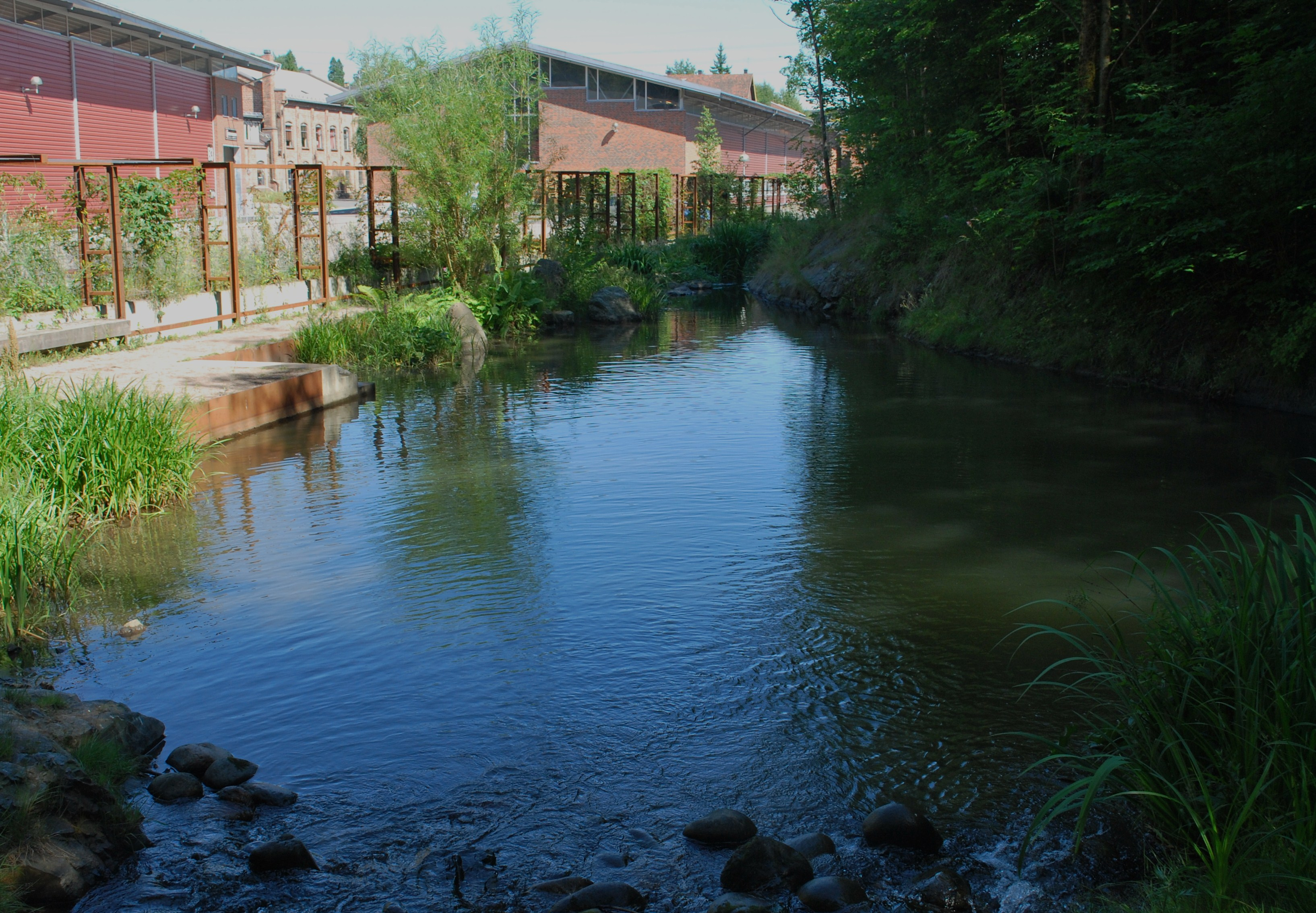 Hølaløkka waterpark, upper dam, Grorud, Oslo